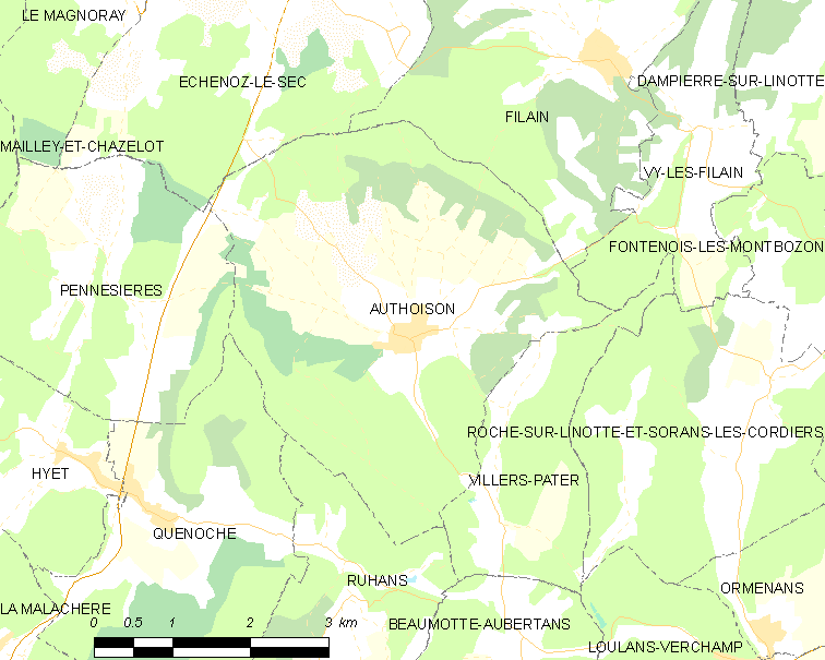 Map of French municipality